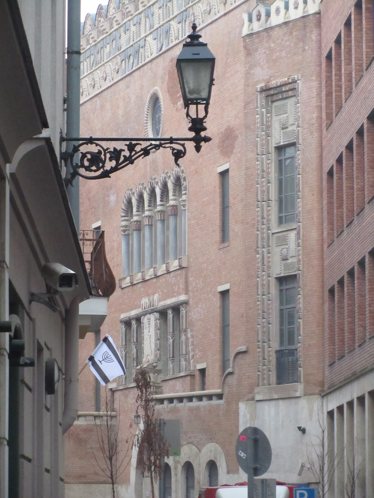 The Yiddish flag in front of a synagogue ייִדיש: ײִדישע פֿאָן